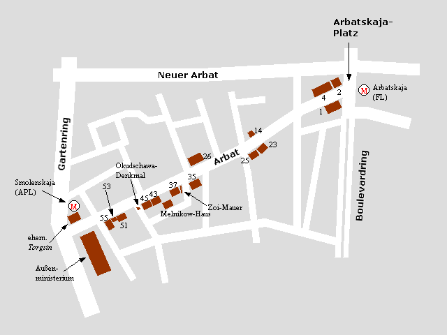 Map of the Arbat and surrounding area with the main attractions marked